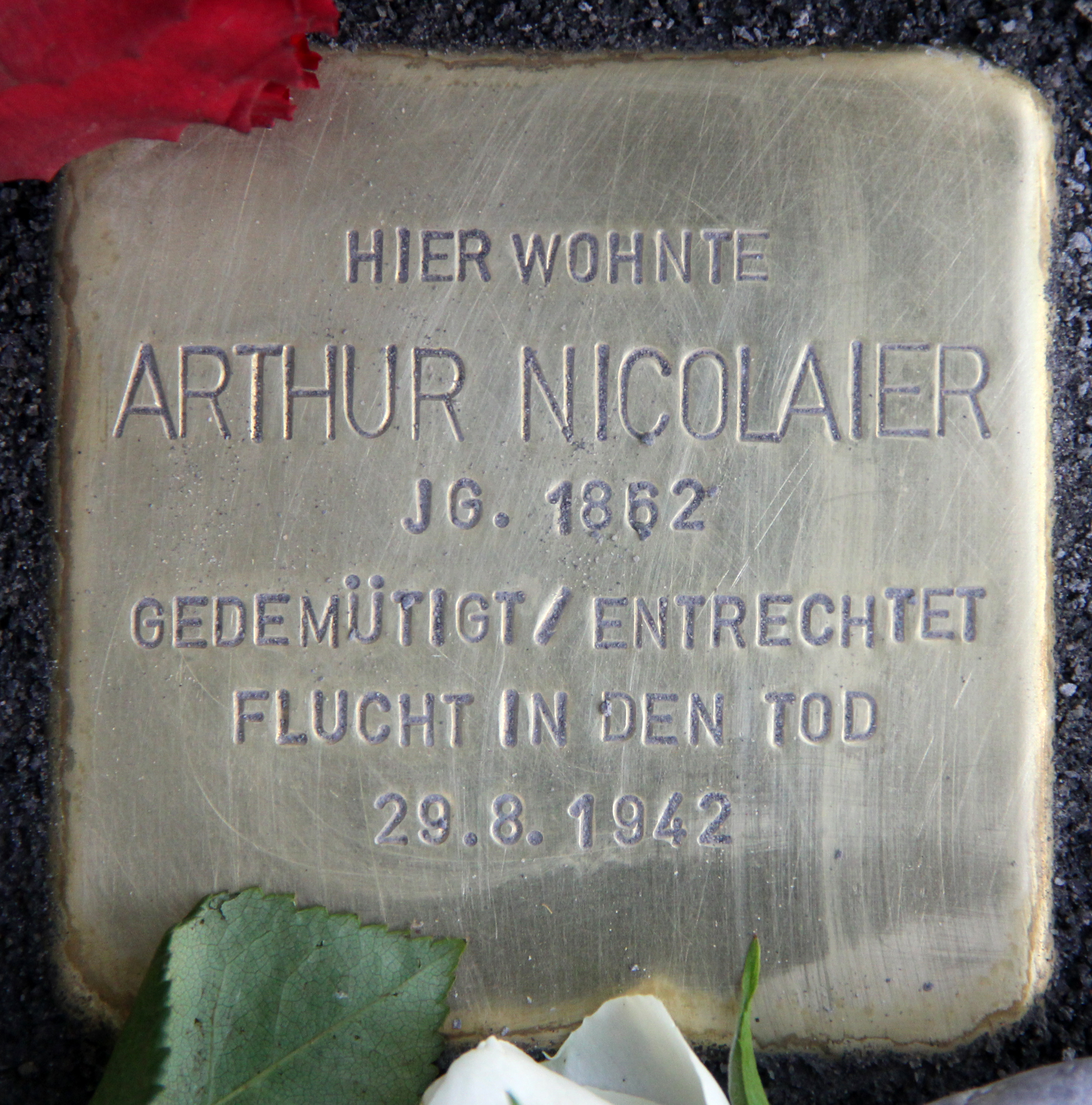 "Stolperstein" (stumbling block), Arthur Nicolaier, Grainauer Straße 2, Berlin-Wilmersdorf, Germany